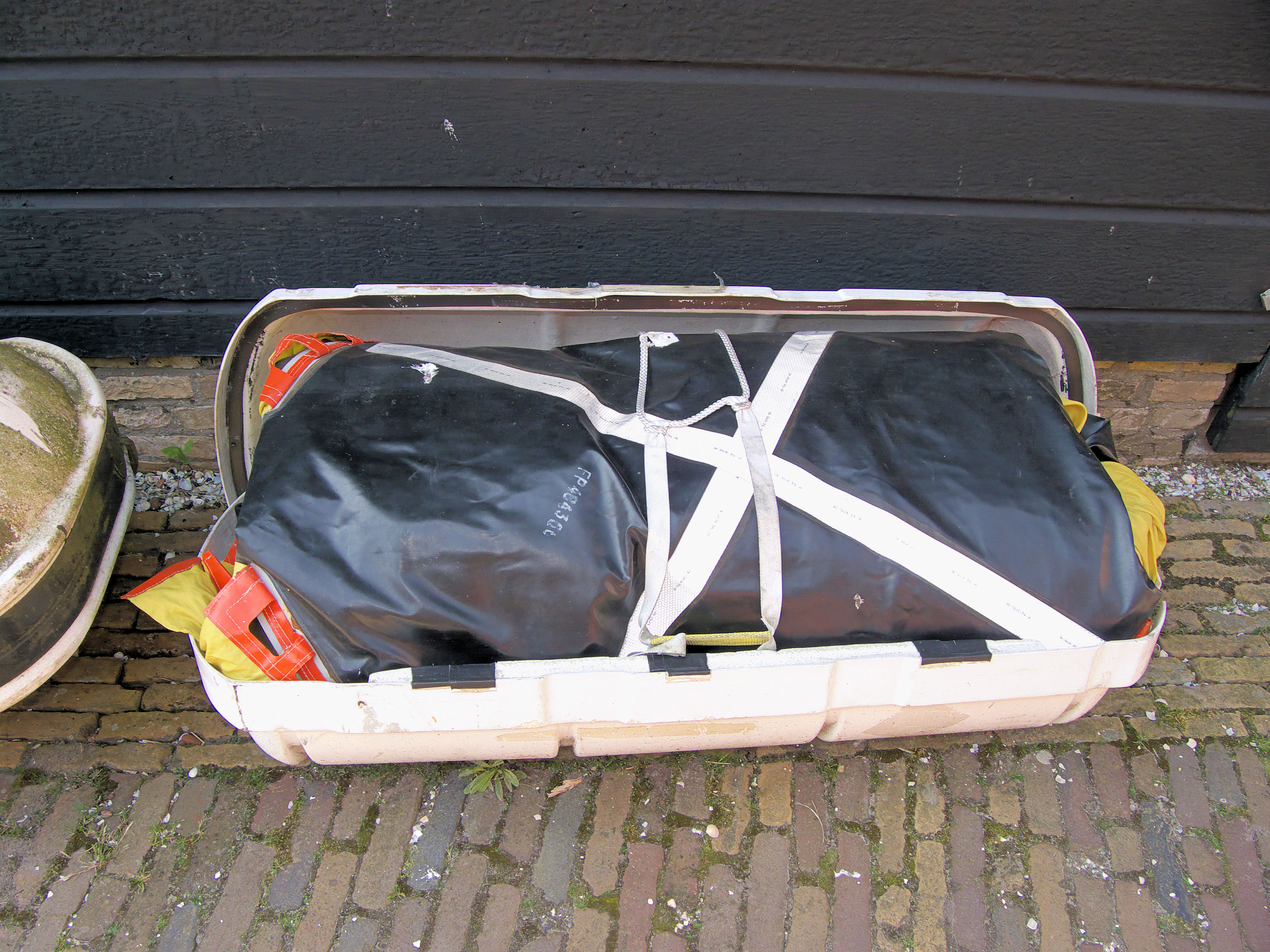 Life raft open